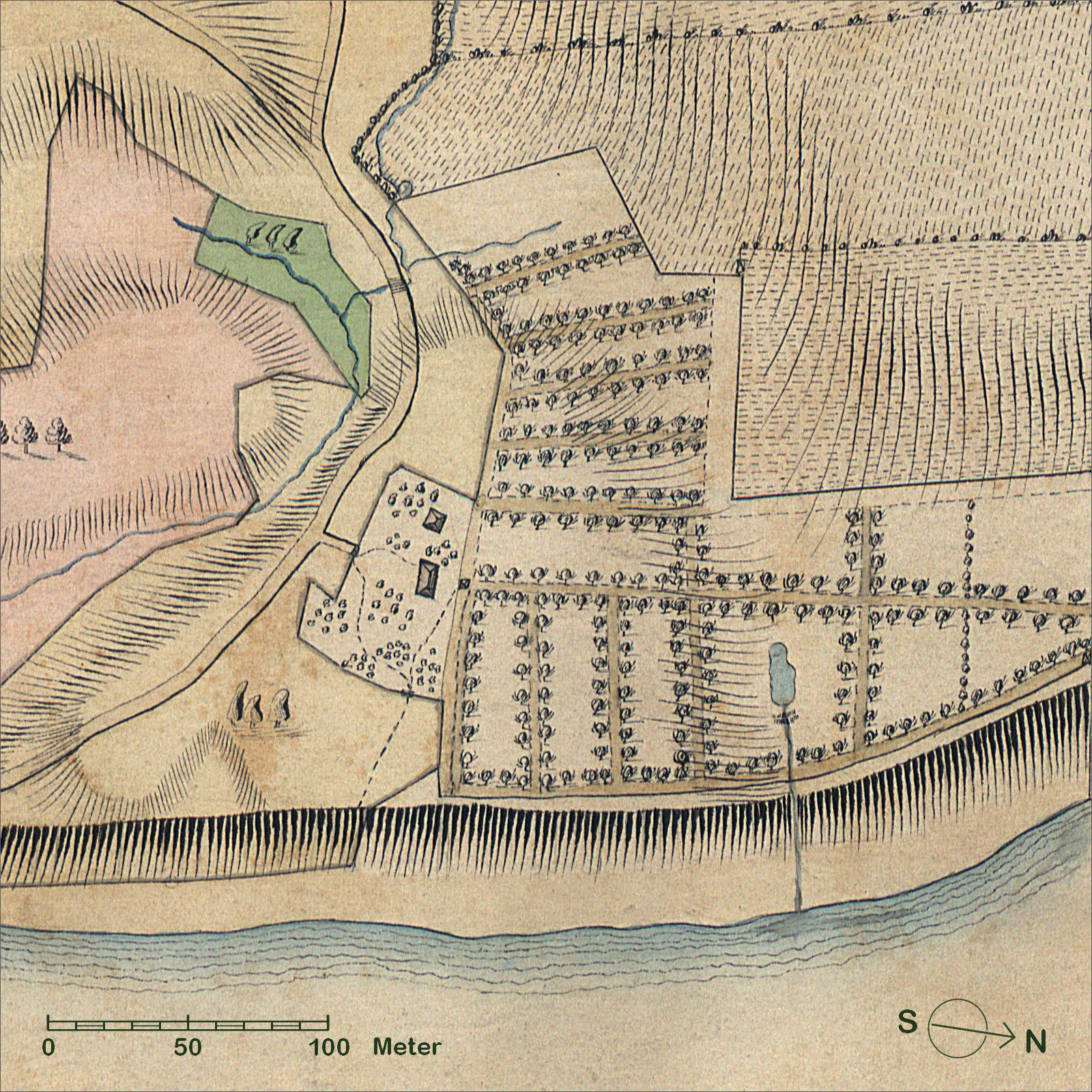 Hirschfeld's Fruchtbaumschule near Kiel, detail from Duesternbrook by W Beck The making of this document was supported by the Community-Budget of Wikimedia Germany.